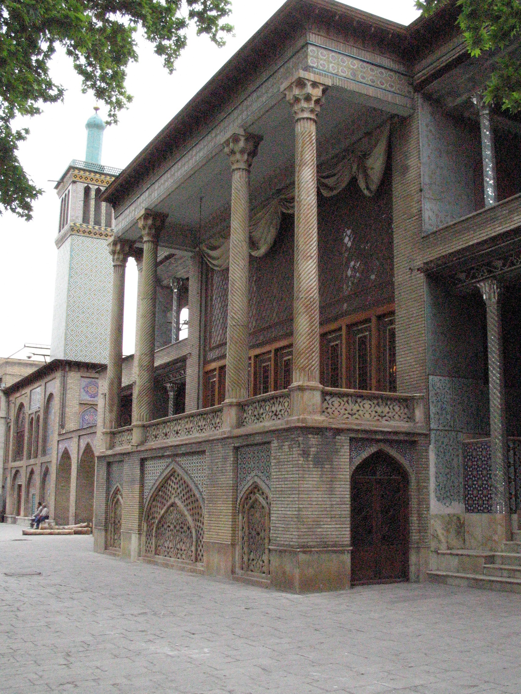 Emarat Badgir building in Golestan Palace compound, Tehran, Iran.